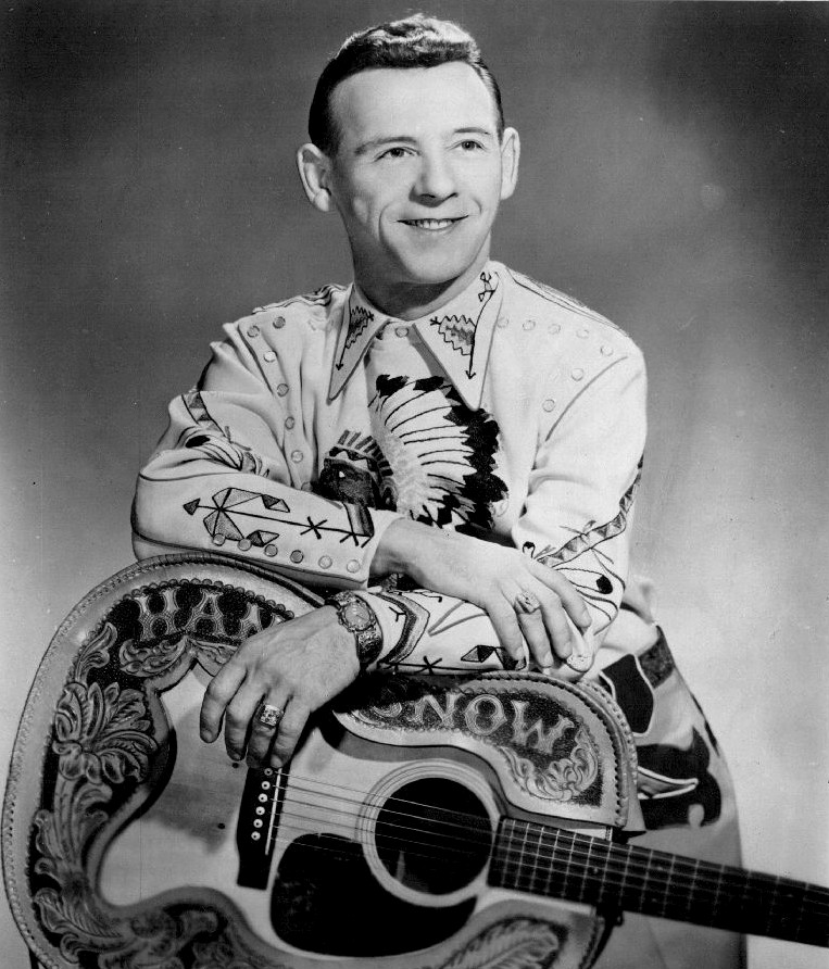 Photo of Hank Snow.